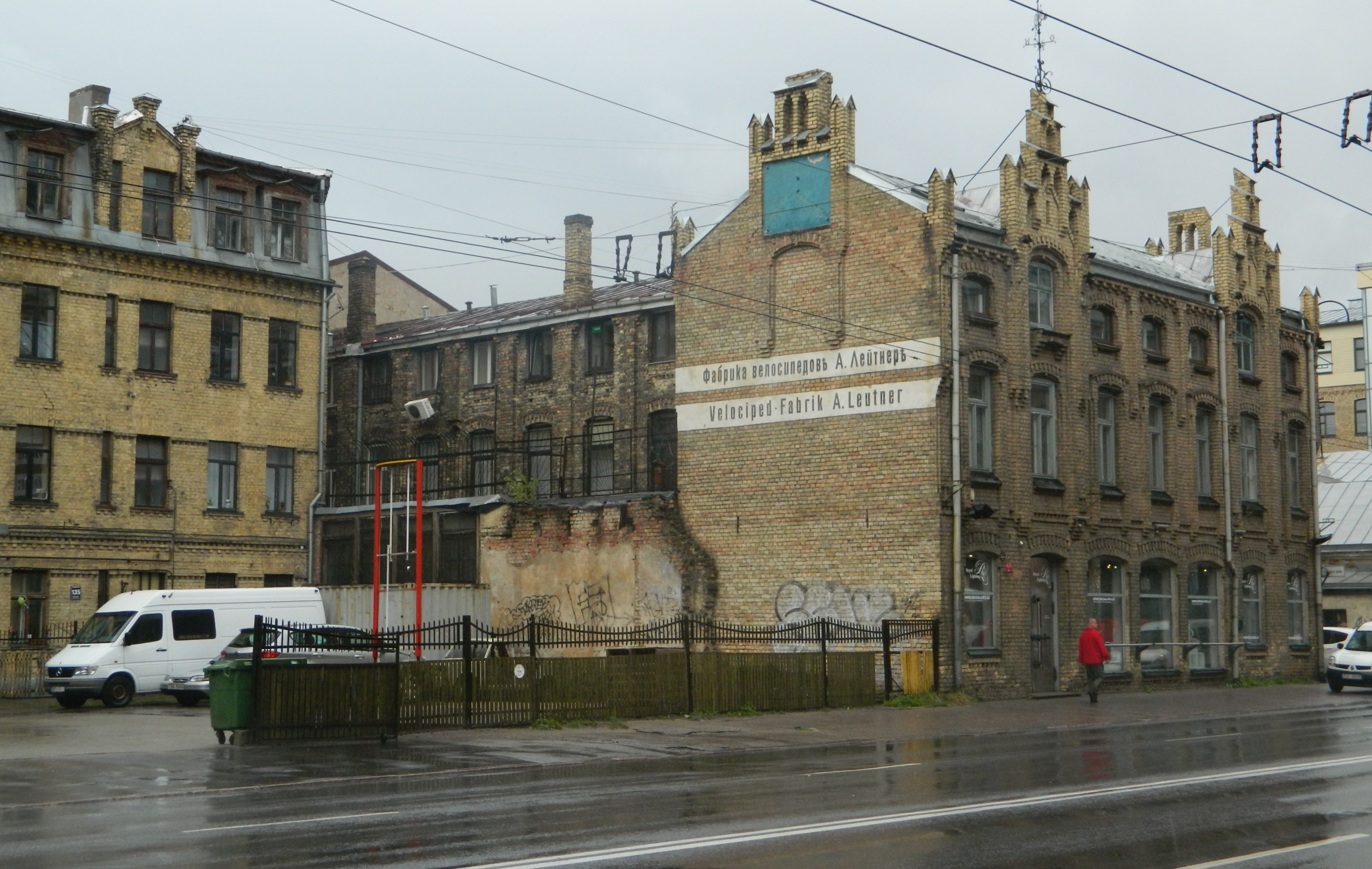 Leitner velocipede fabrics Rīga, Brīvības iela 135/137